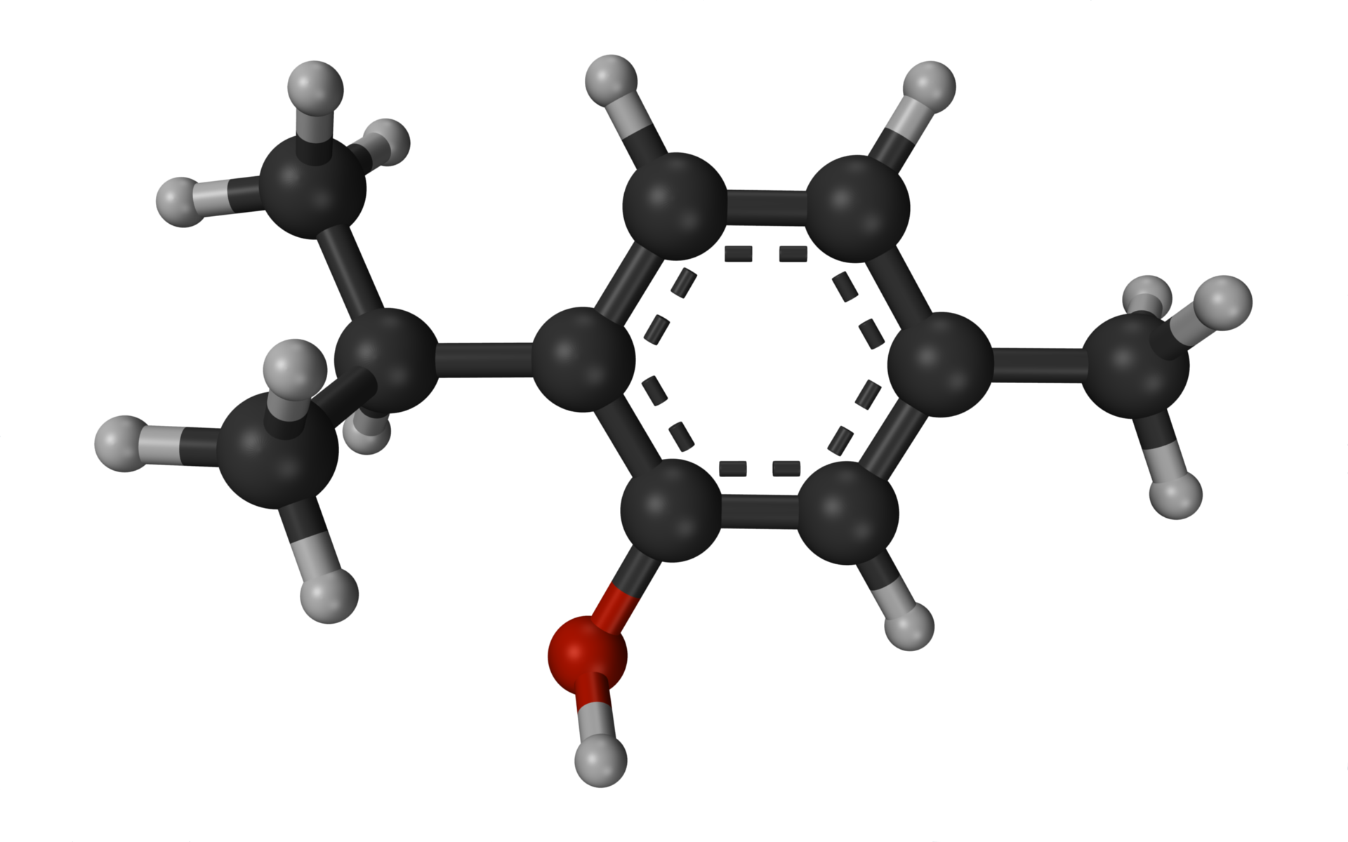 3D model of Thymol molecule.